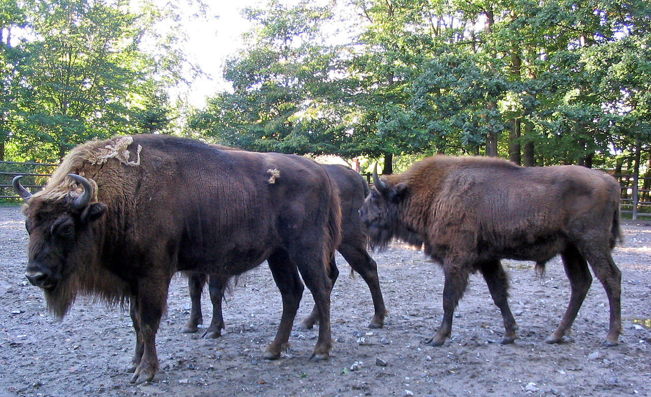 Wisent or European Bison in Tierpark Stralsund, Germany.